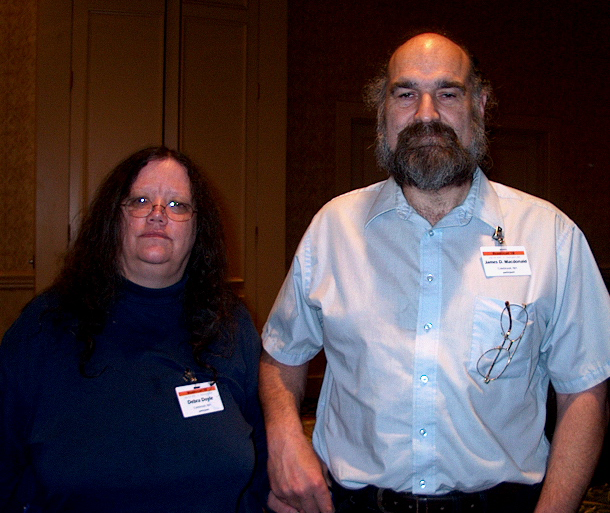 Debra Doyle and Jim MacDonald, fantasy and science fiction authors, at Readercon 2007